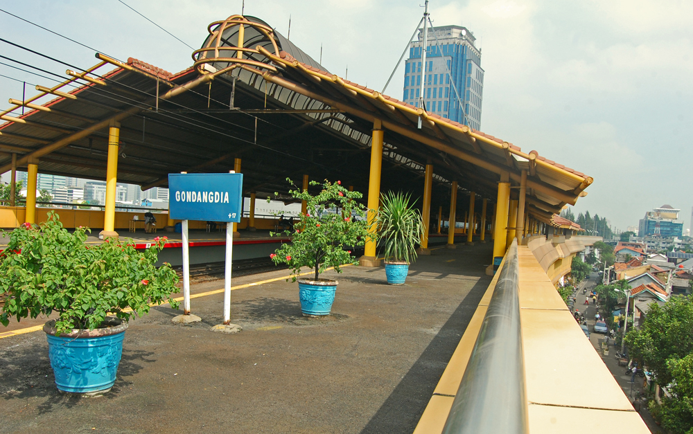 Gondangdia train station in Jakarta, Indonesia